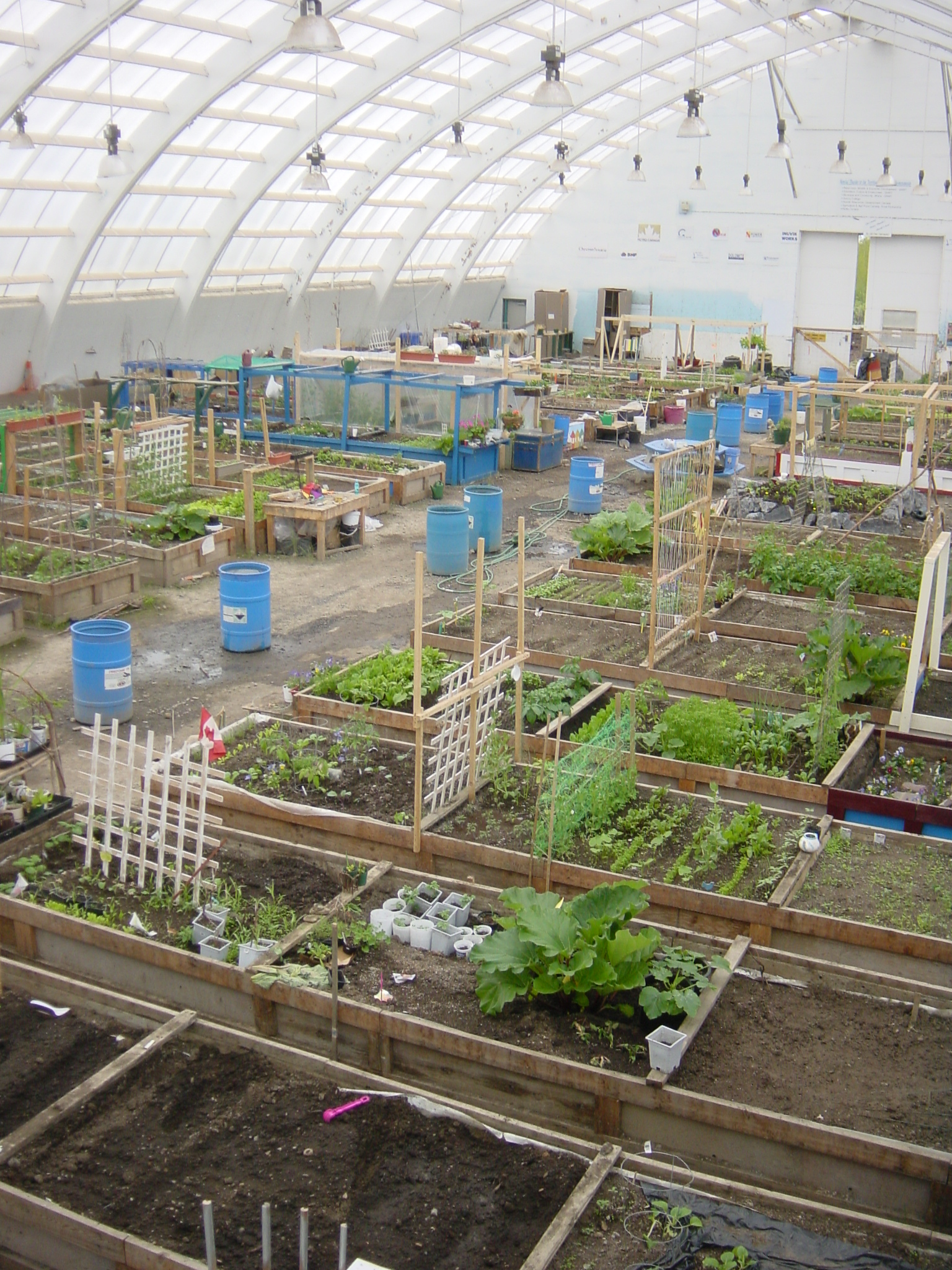 The Inuvik community greenhouse converted from an old hockey rink.